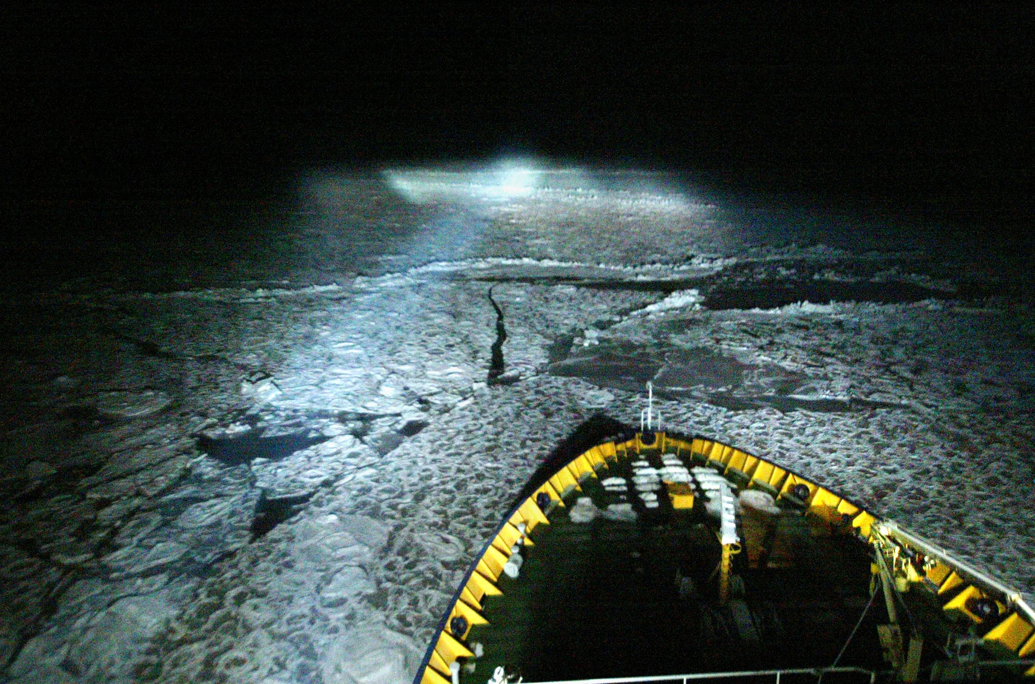 Nightly icebreaking by the icebreaker Ymer